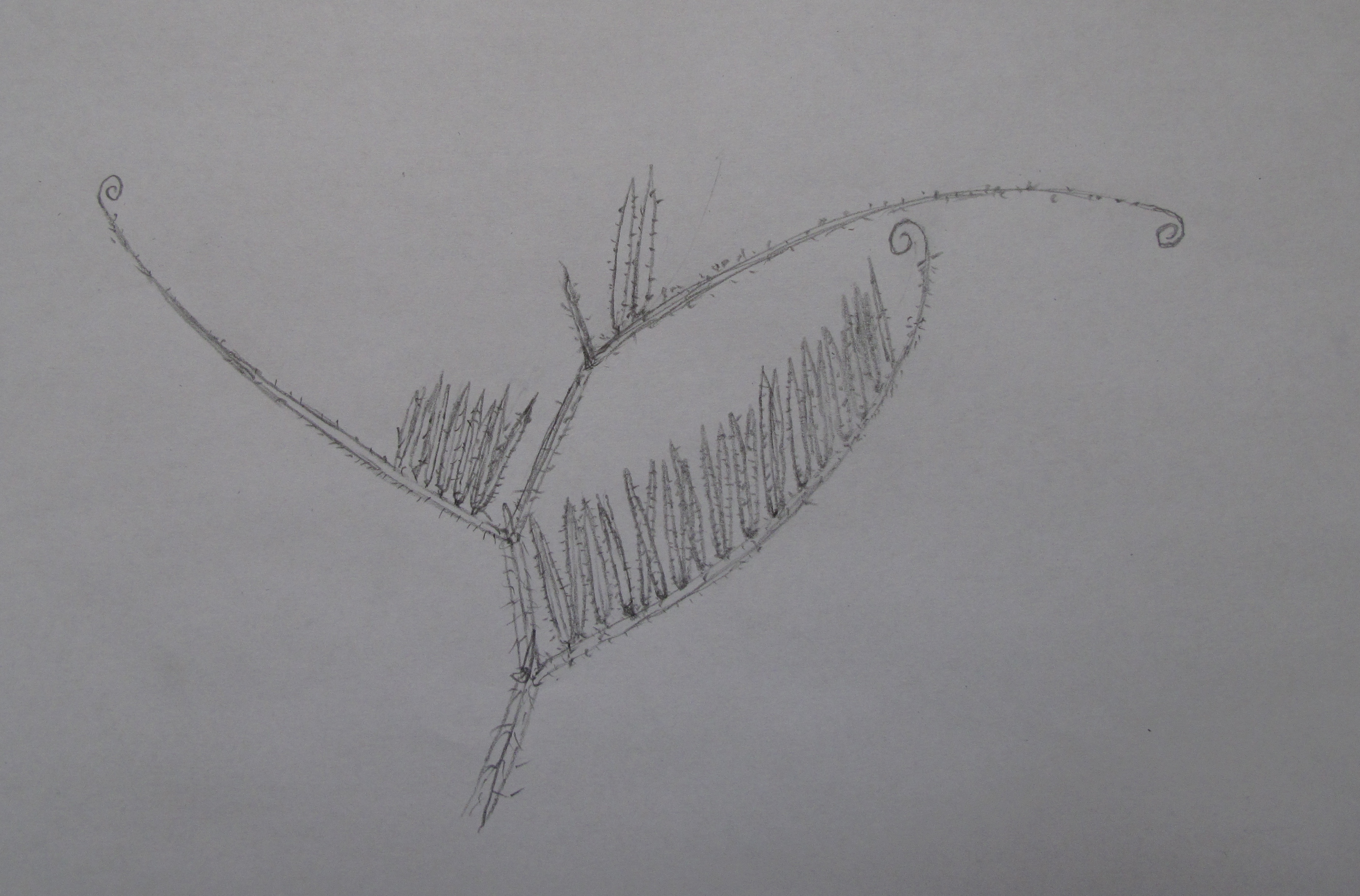 Folliage of Cicer Canariense - drawing.